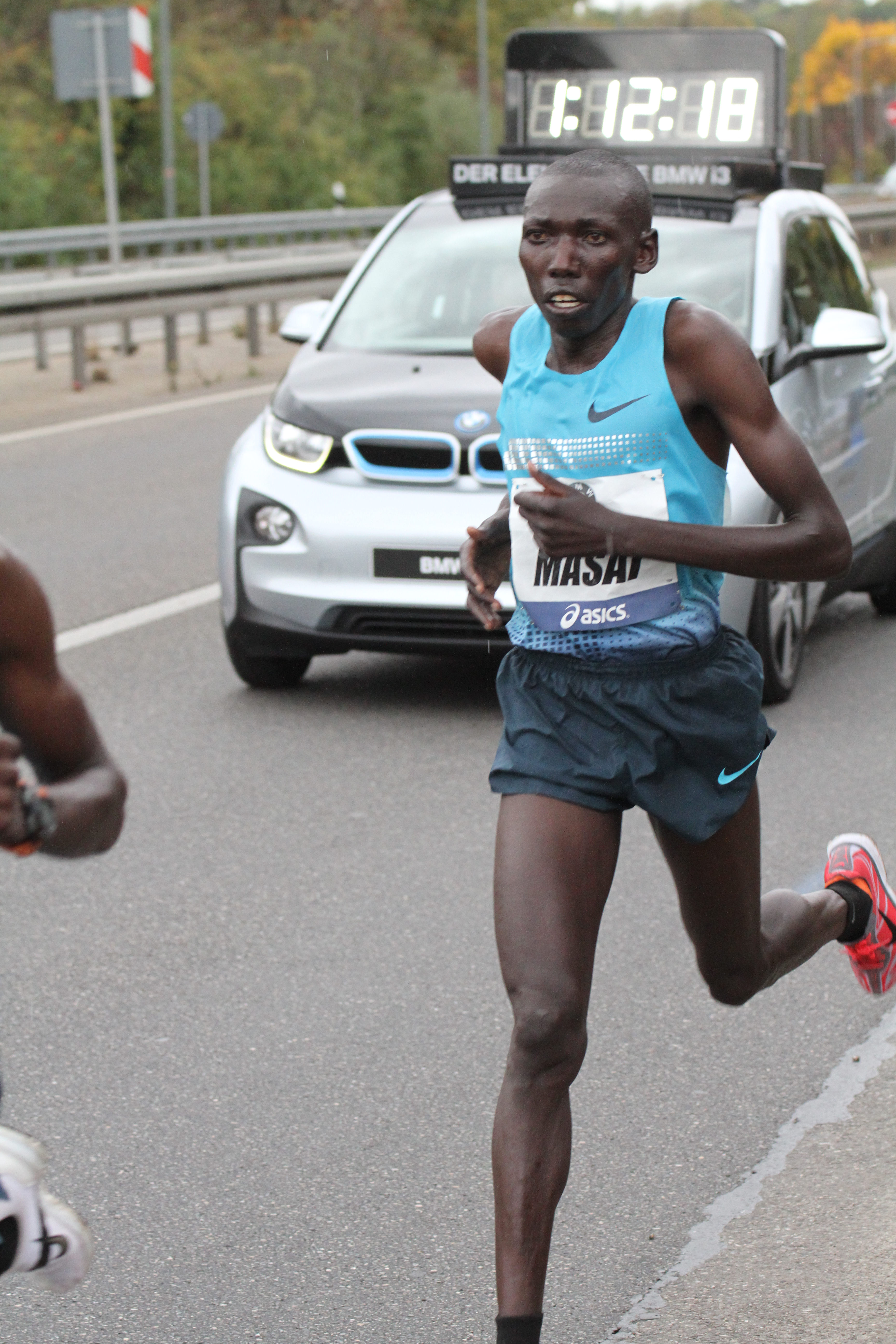 Moses Masai during the Frankfurt Marathon, 2013